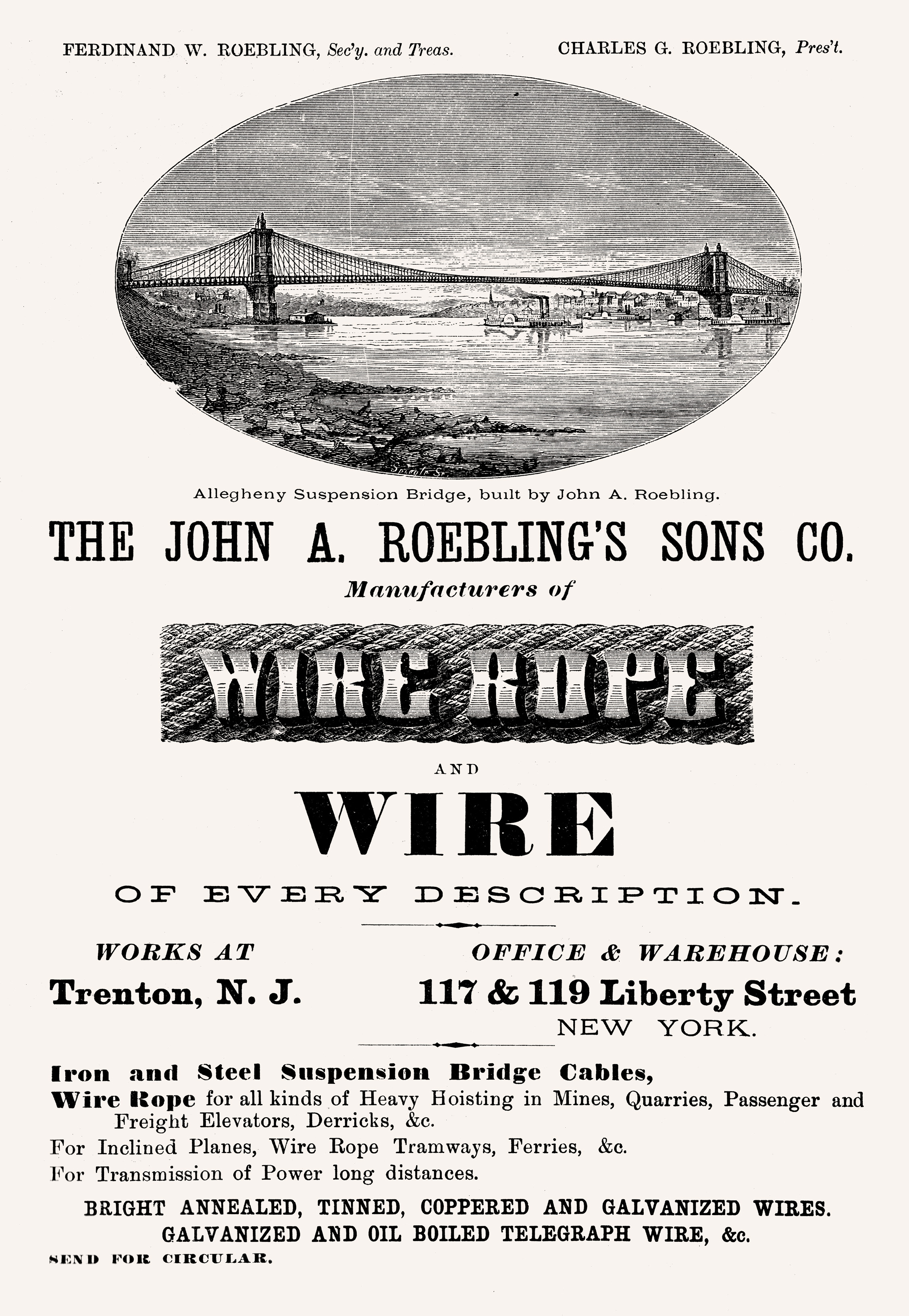 John A. Roebling Co. Advertisement, 1879